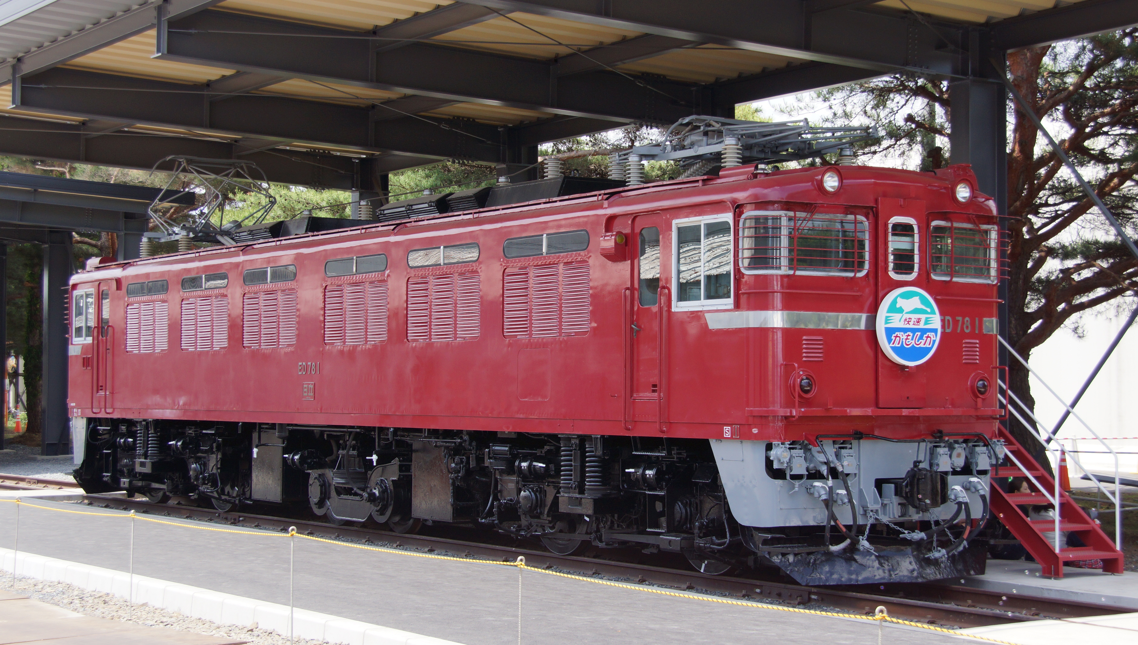 Preserved Class ED78 electric locomotive ED78 1 on display at the Hitachi Mito Factory annual "Satsuki Matsuri" open day in Hitachinaka, Ibaraki Prefecture, Japan